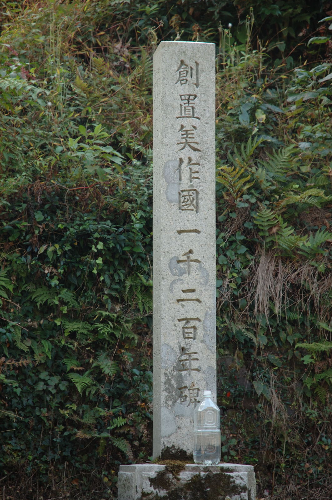 Mimasaka country setting 1200 monument